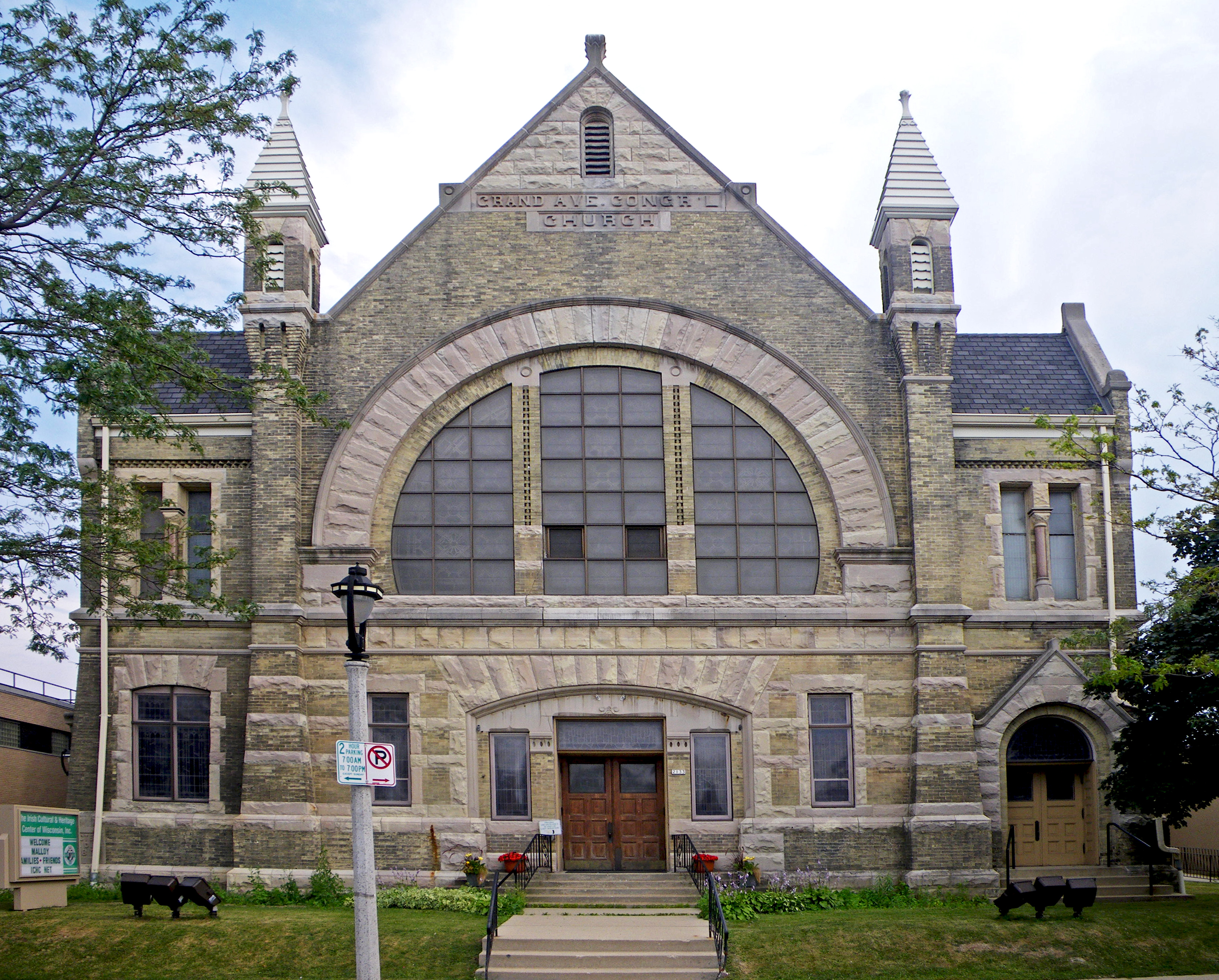 Grand Avenue Congregational Church (1887) at 2113 W. Wisconsin Avenue in Milwaukee, Wisconsin, was designed by E. Townsend Mix. It now serves as the Irish Cultural Heritage Center.